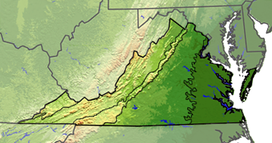 Painted relief map of the state of Virginia.